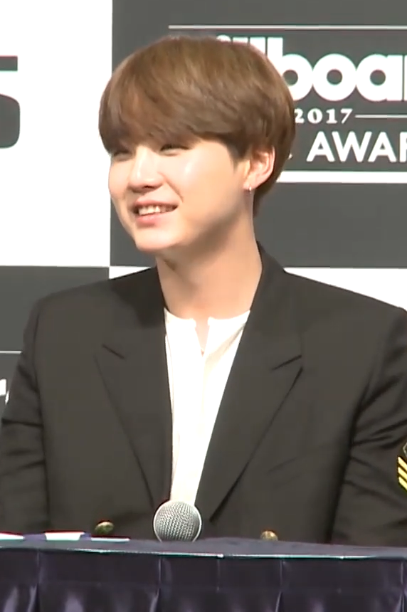 Suga at a press conference for the Billboard Music Awards on May 29, 2017